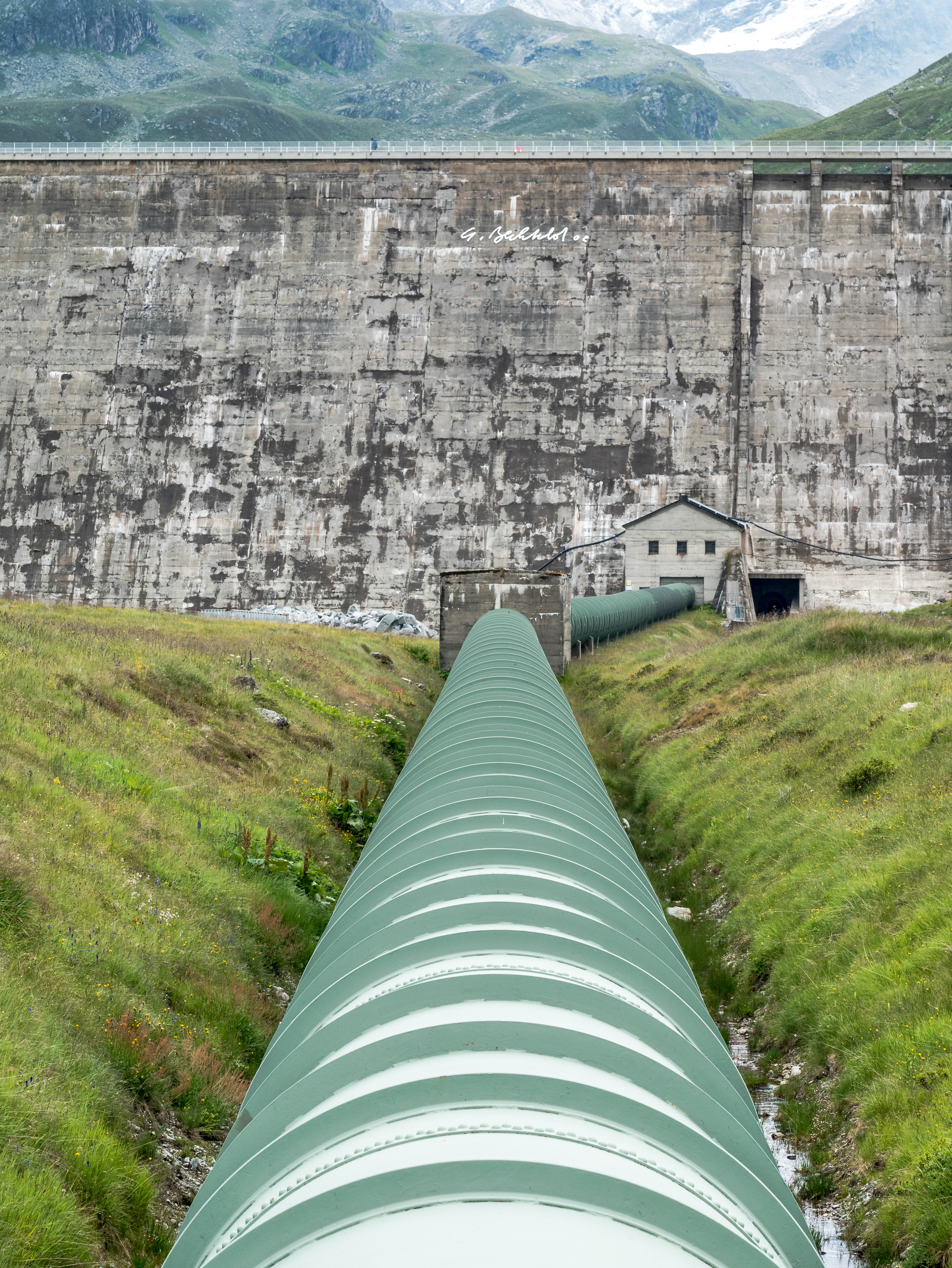 Water pipeline between Silvretta Reservoir and Lake Vermunt. Vorarlberg, Austria